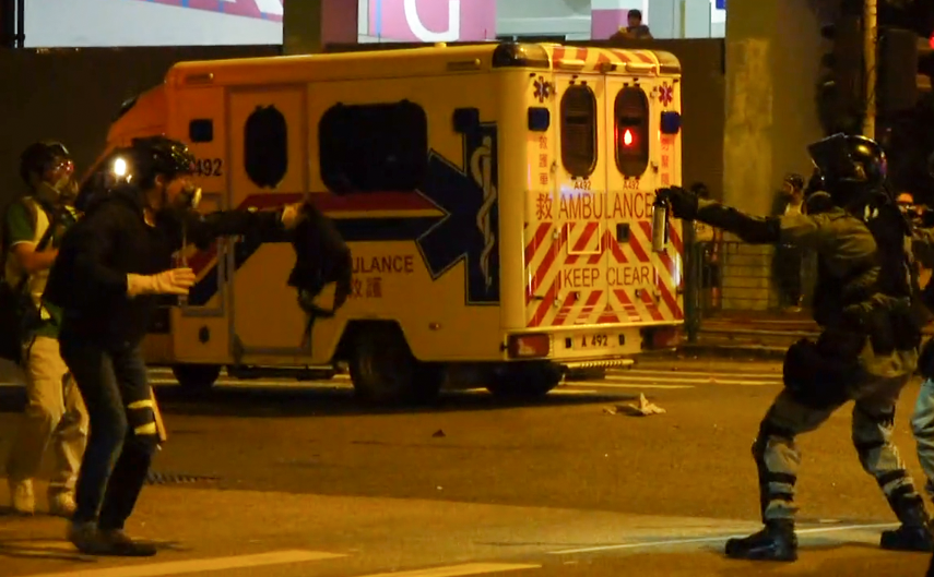 Police use pepper spray warning people